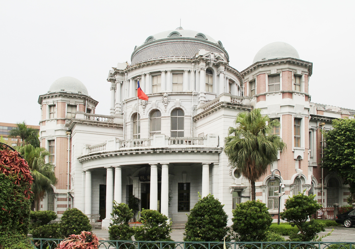 The Control Yuan Republic of China 中華民國監察院